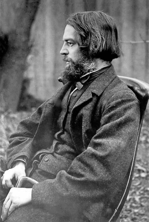 Benjamin Mountford. photographed circa 1870. Public domain by virtue of age